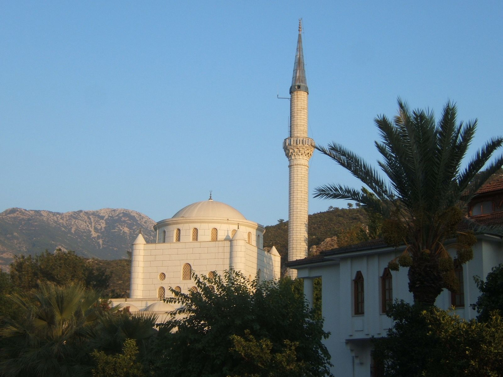 The white mosque in the center of Fethiye, Turkey